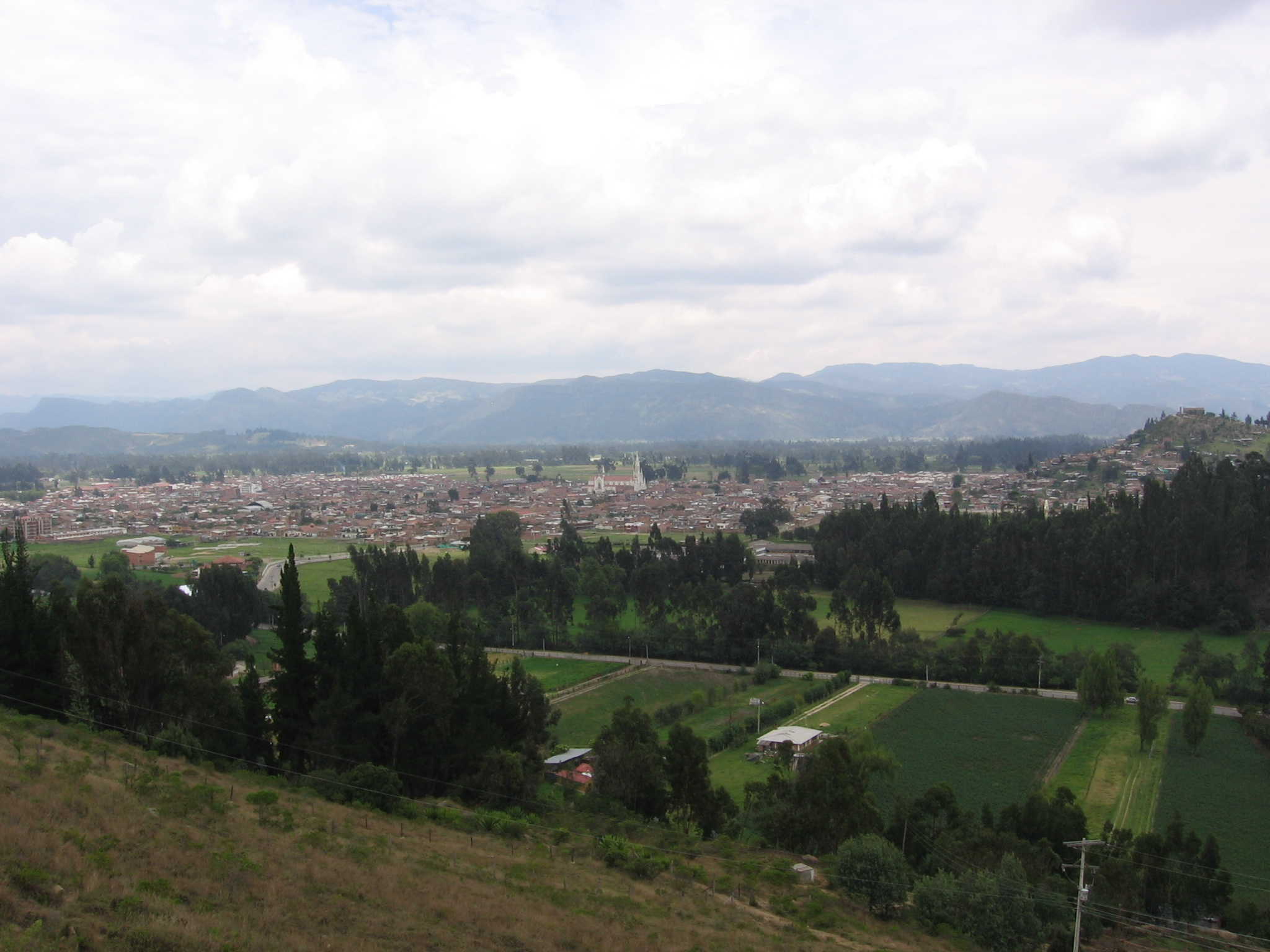 Ubaté 2006